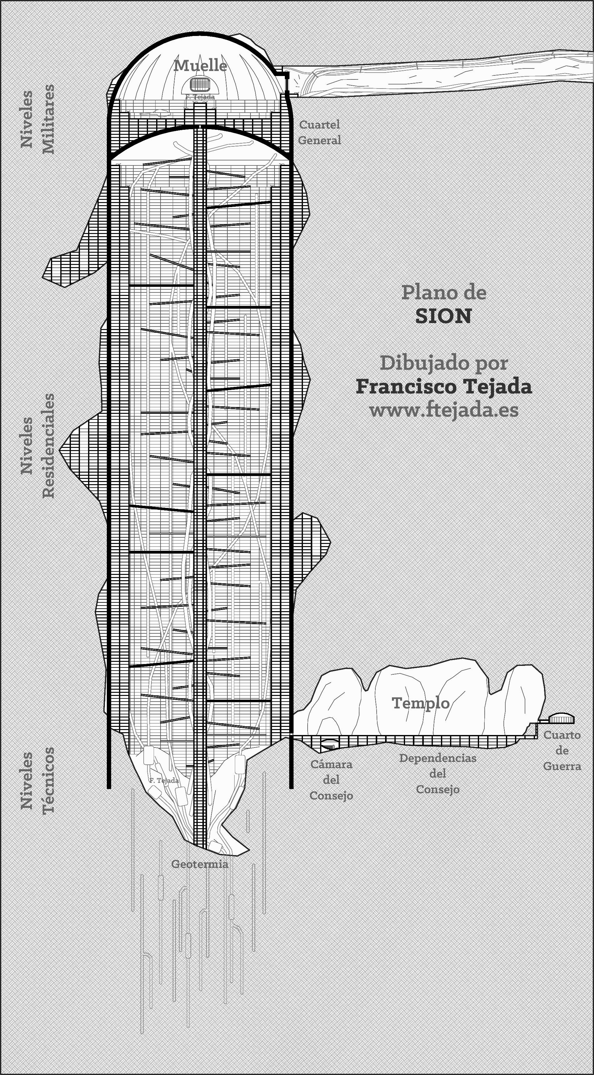 Plan of Zion city, Matrix films.